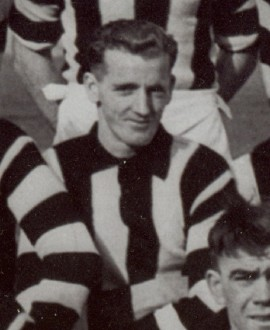 Photograph of Fred Stabb in 1944